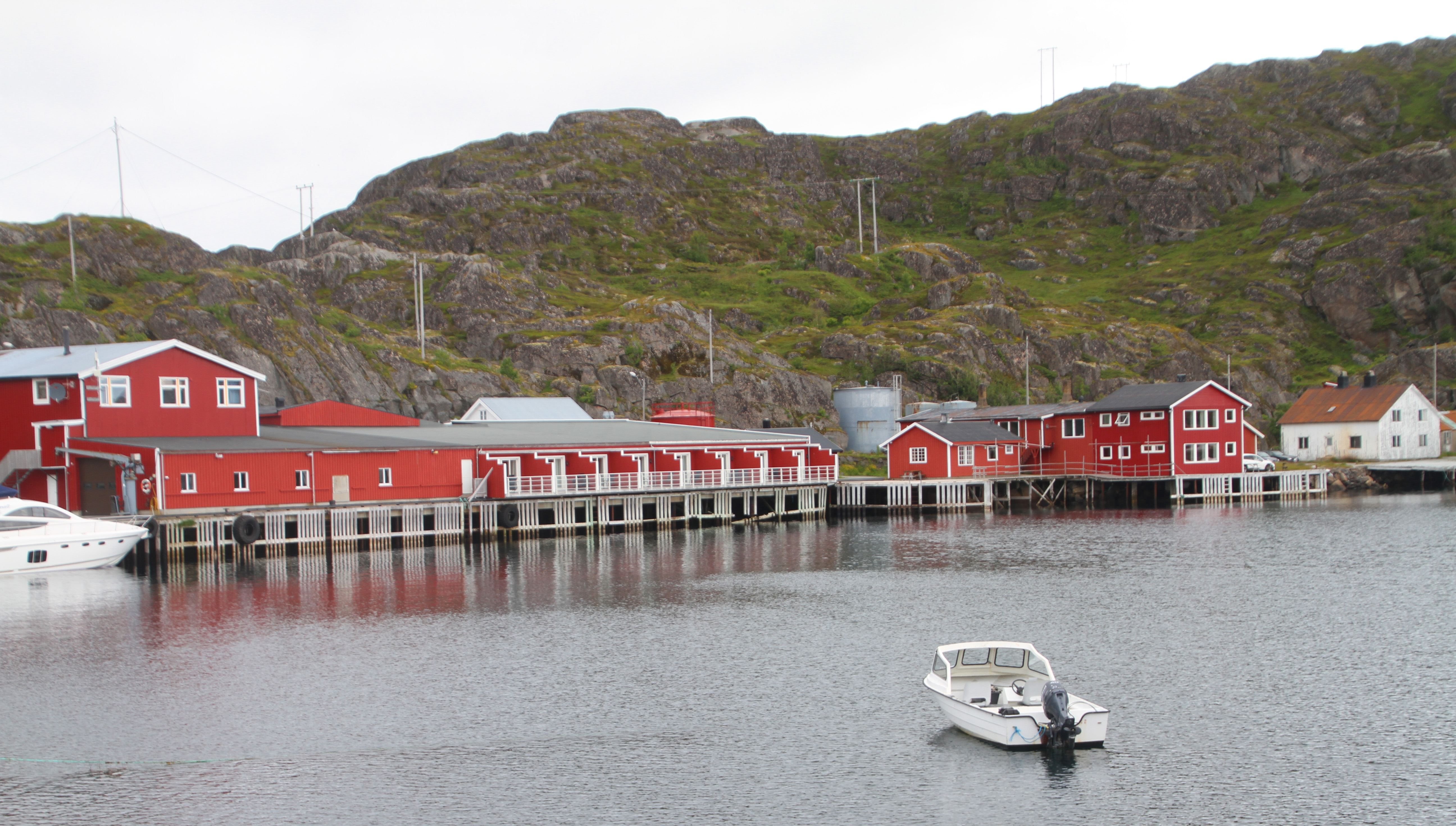 Settlement Mortsund, Vestvågøy, Lofoten, Norwegen